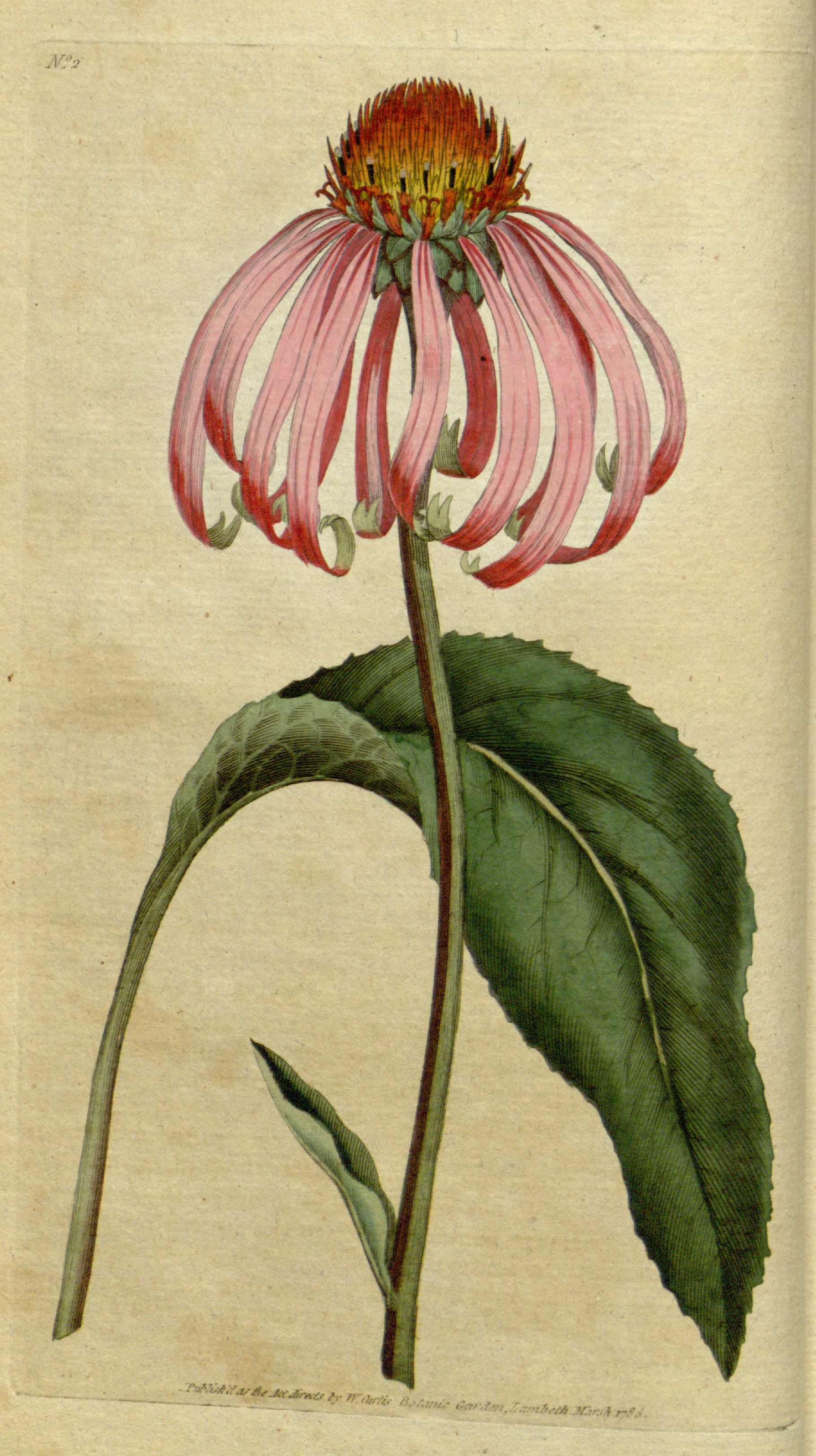 This is Plate 2 from The Botanical Magazine, Volume 1. Echinacea purpurea